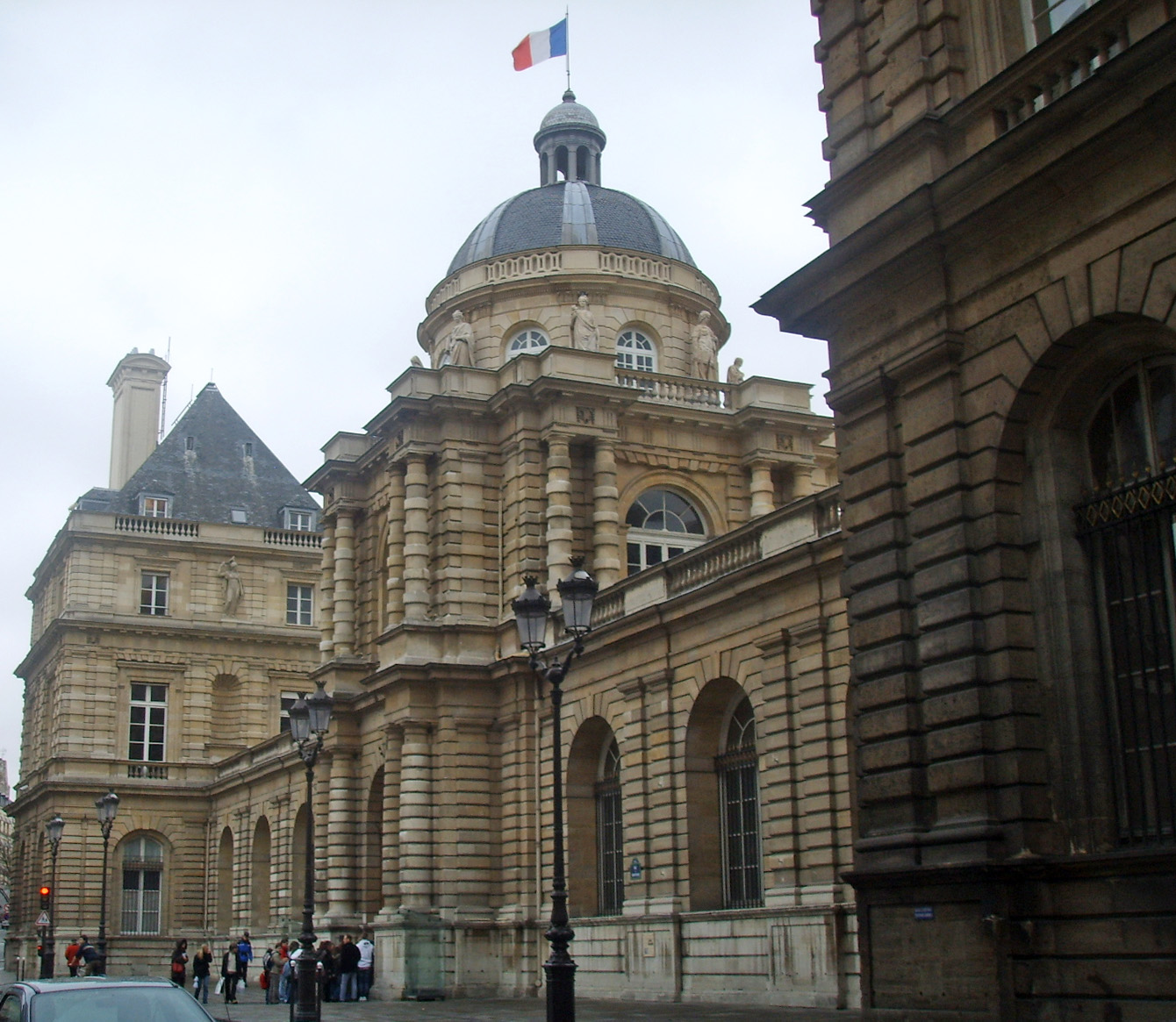 Entrance facade of the Luxembourg Palace in Paris